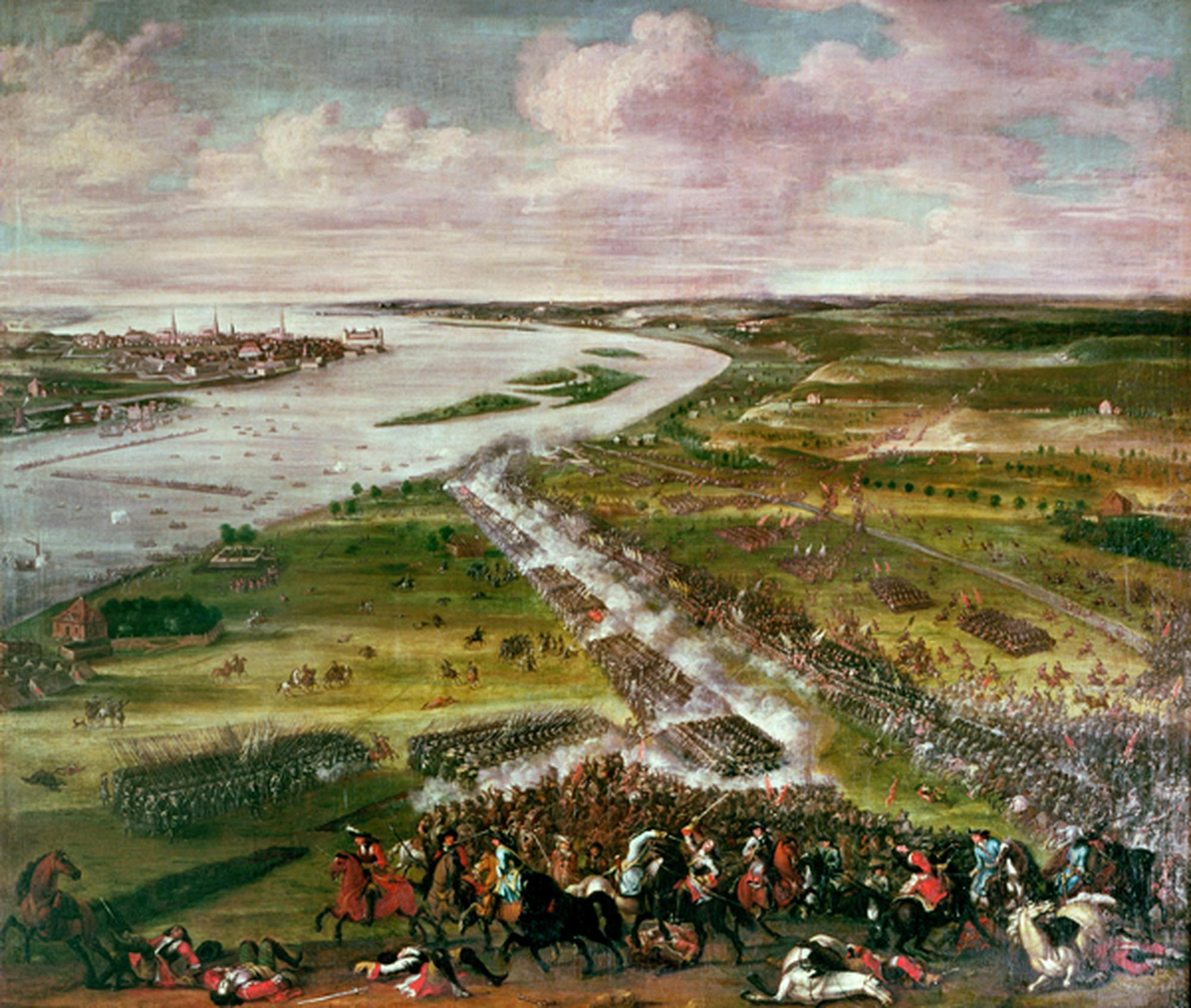 Victory for Charles XII of Sweden; Karl XII (1697-1718); against Saxony